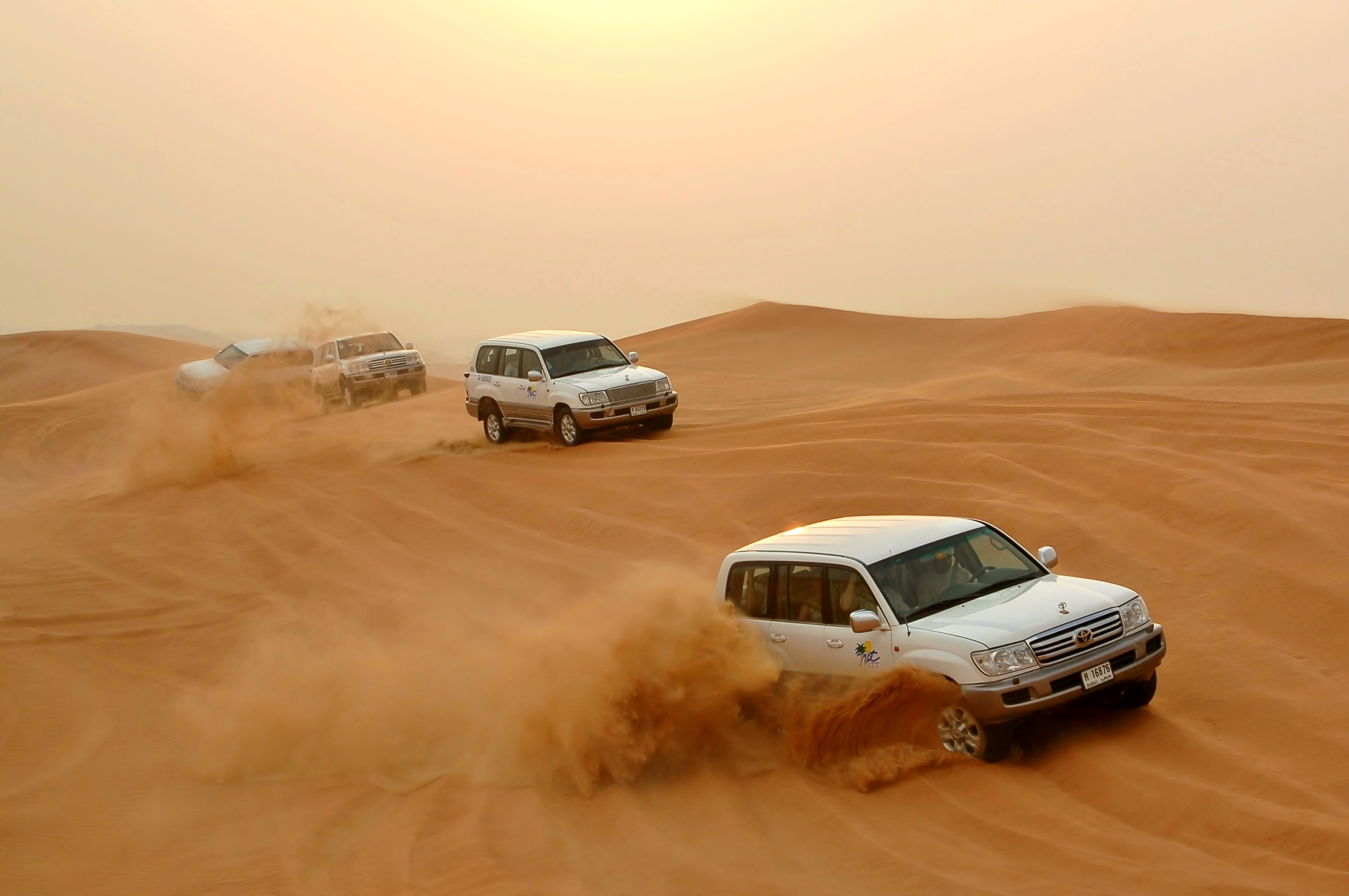 View of some organised dune bashing in one of the deserts of Dubai, UAE, using a fleet of Toyota Land Cruiser J100 series SUVs.